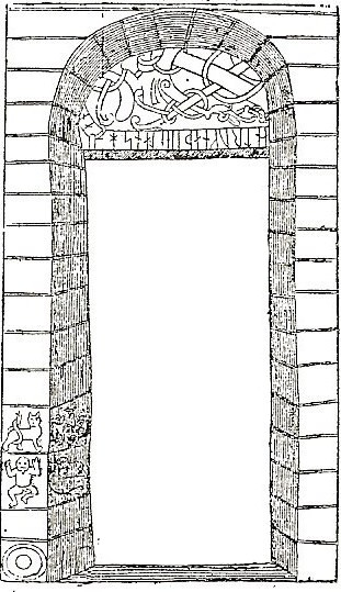 drawing